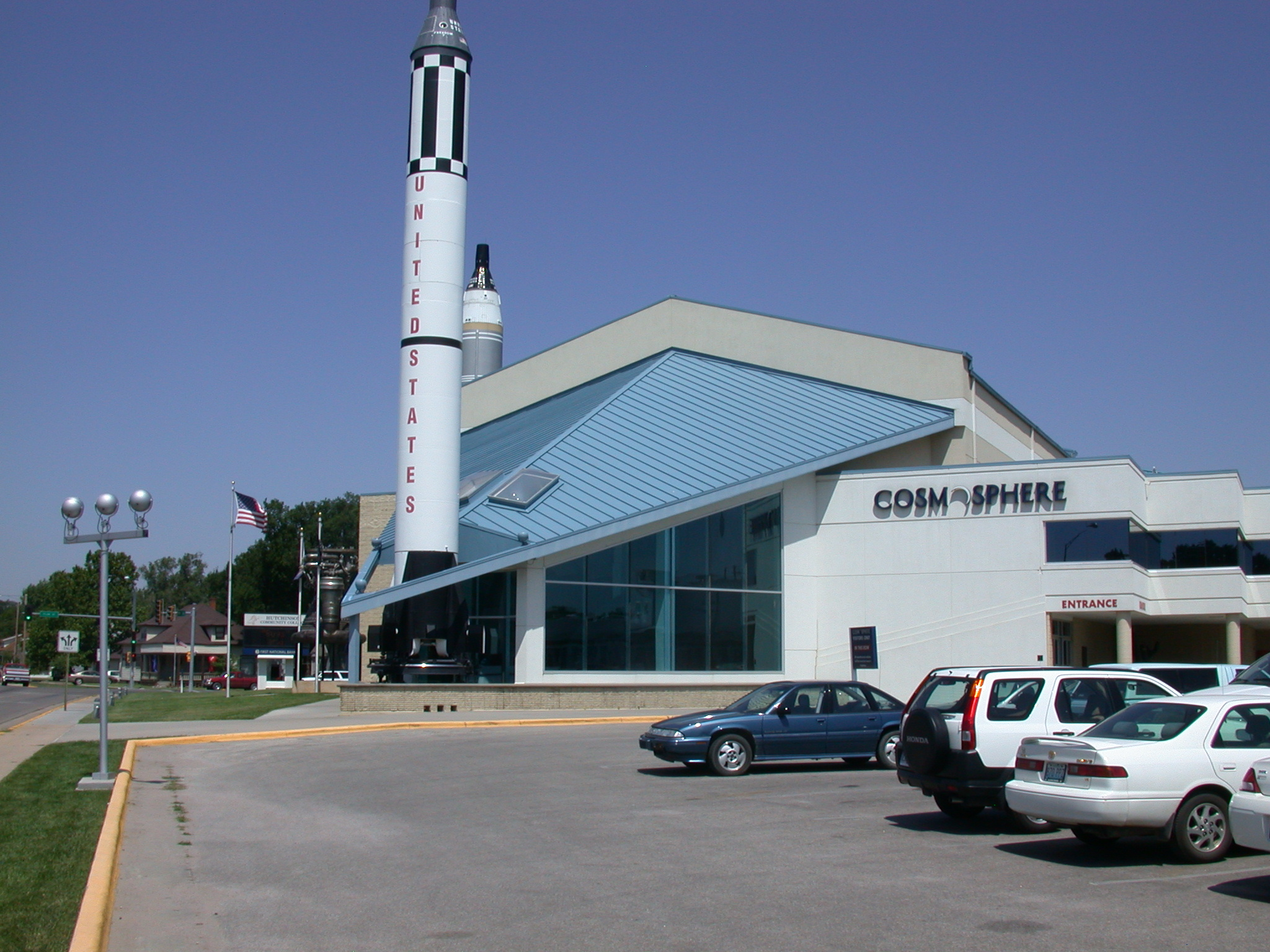 Front of the Kansas Cosmosphere